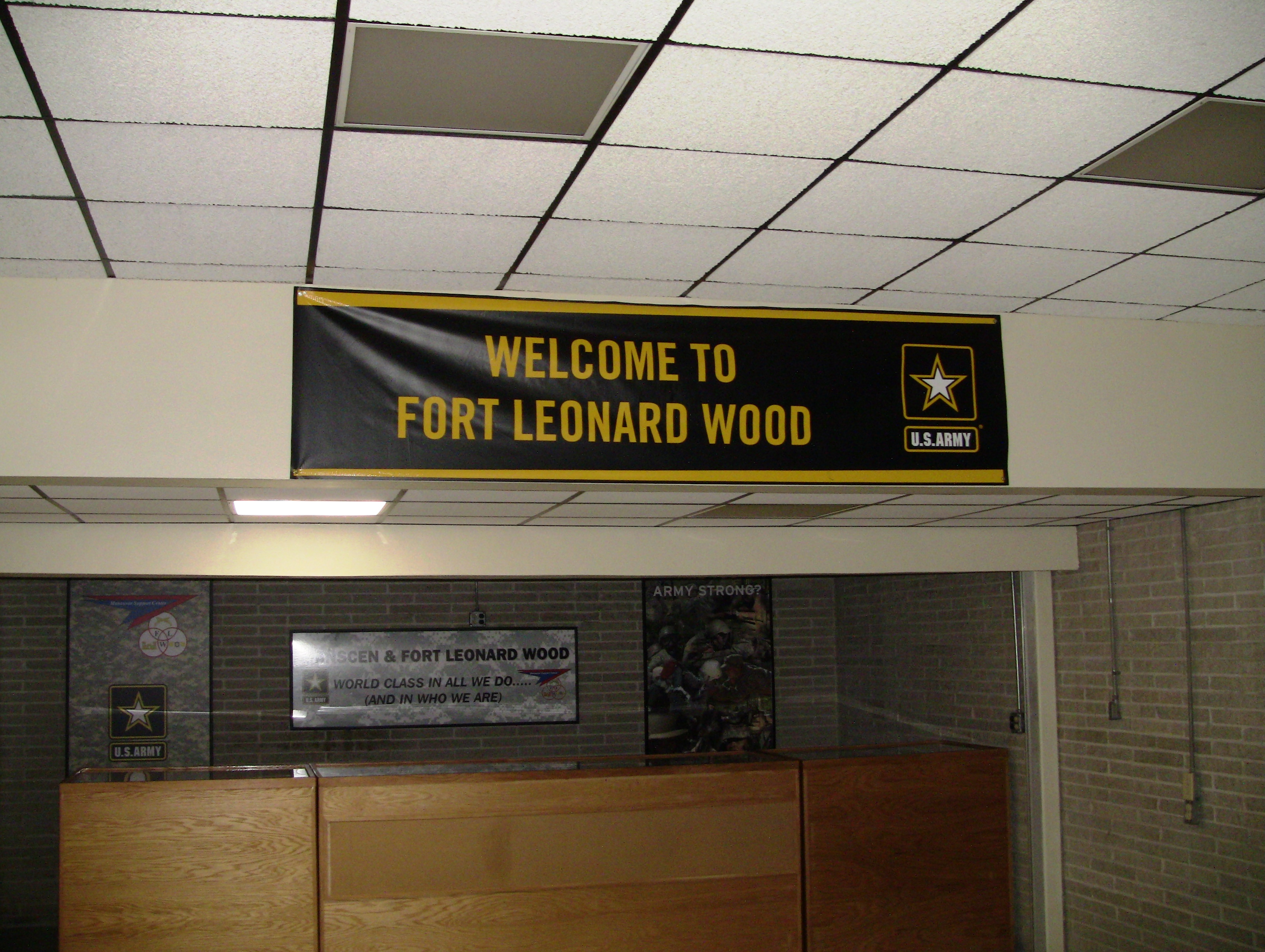 FLW Baker Theater